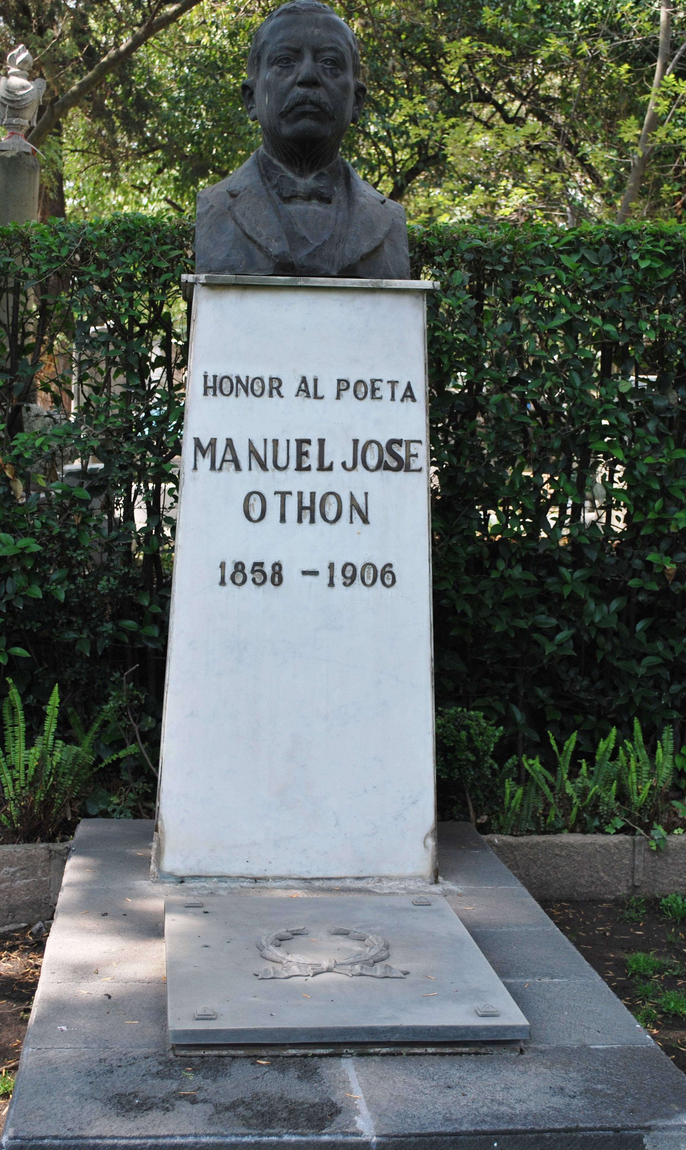 Tomb of Manuel Jose Othon in the Panteon Civil de Dolores cemetery in Mexico City